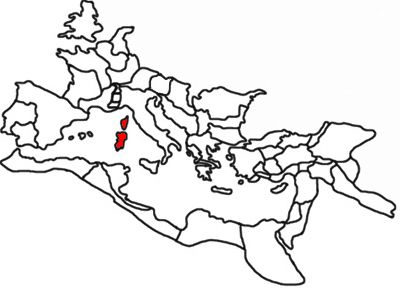 Roman Empire, Corsica et Sardinia province highlited